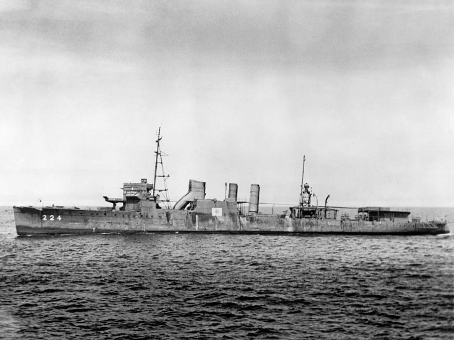 The U.S. Navy destroyer USS Stewart (DD-224) under tow on 24 May 1946, just before she was expended as a target. Note that her Japanese radar antennas have been removed from atop the ship's pilothouse and abaft her foremast. The Japanese flag painted amidships reflects Stewart's 1943-1945 service as the Japanese Navy's Patrol Boat 102. She was recovered by the U.S. Navy after the end of World War II and recommissioned as USS DD-224 for the voyage back to the United States.